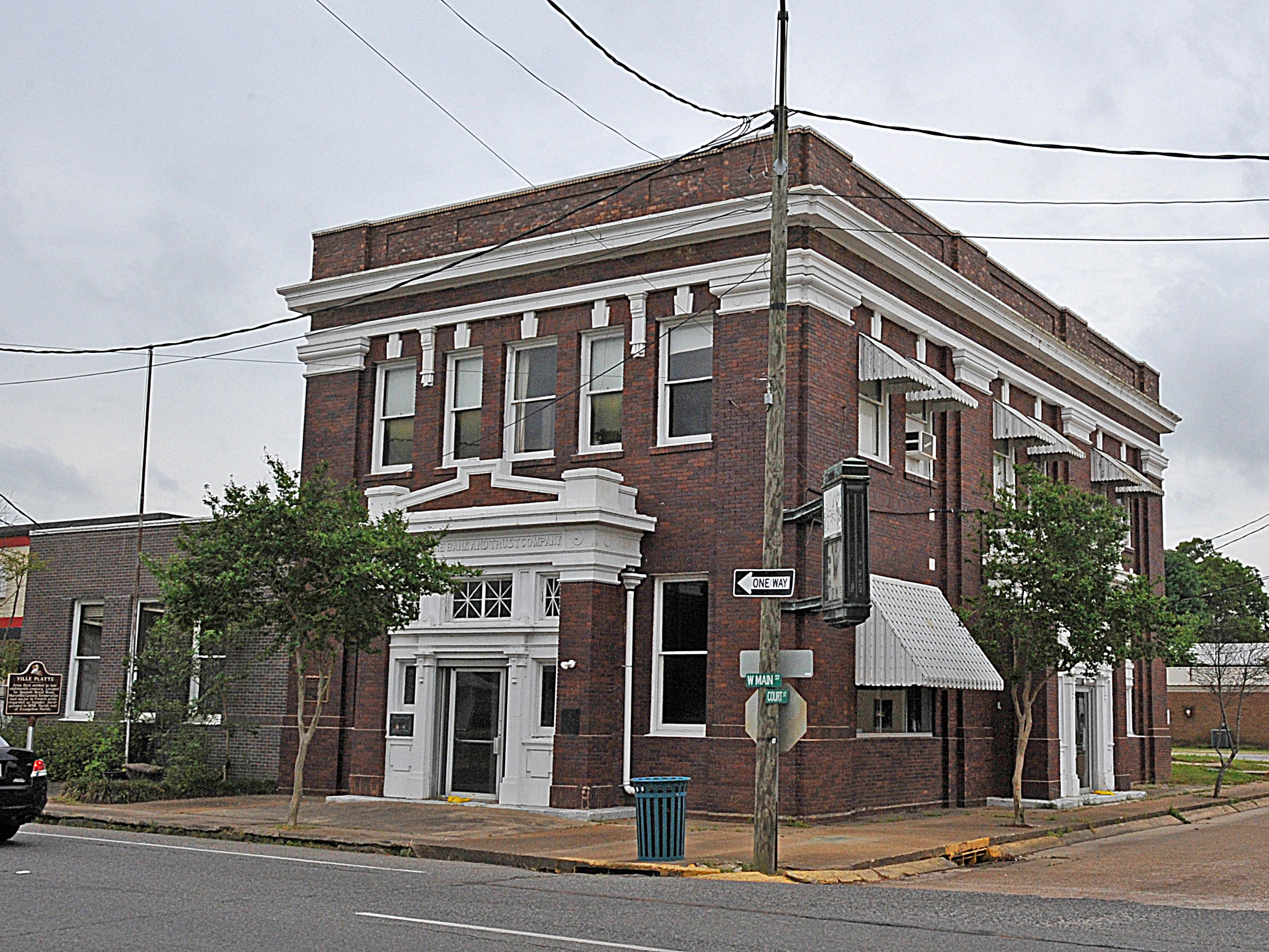 BUILT 1913 IN CLASSICAL REVIVAL STYLE; NAME IS INSCRIBED IN THE PEDIMENT OVER THE DOOR